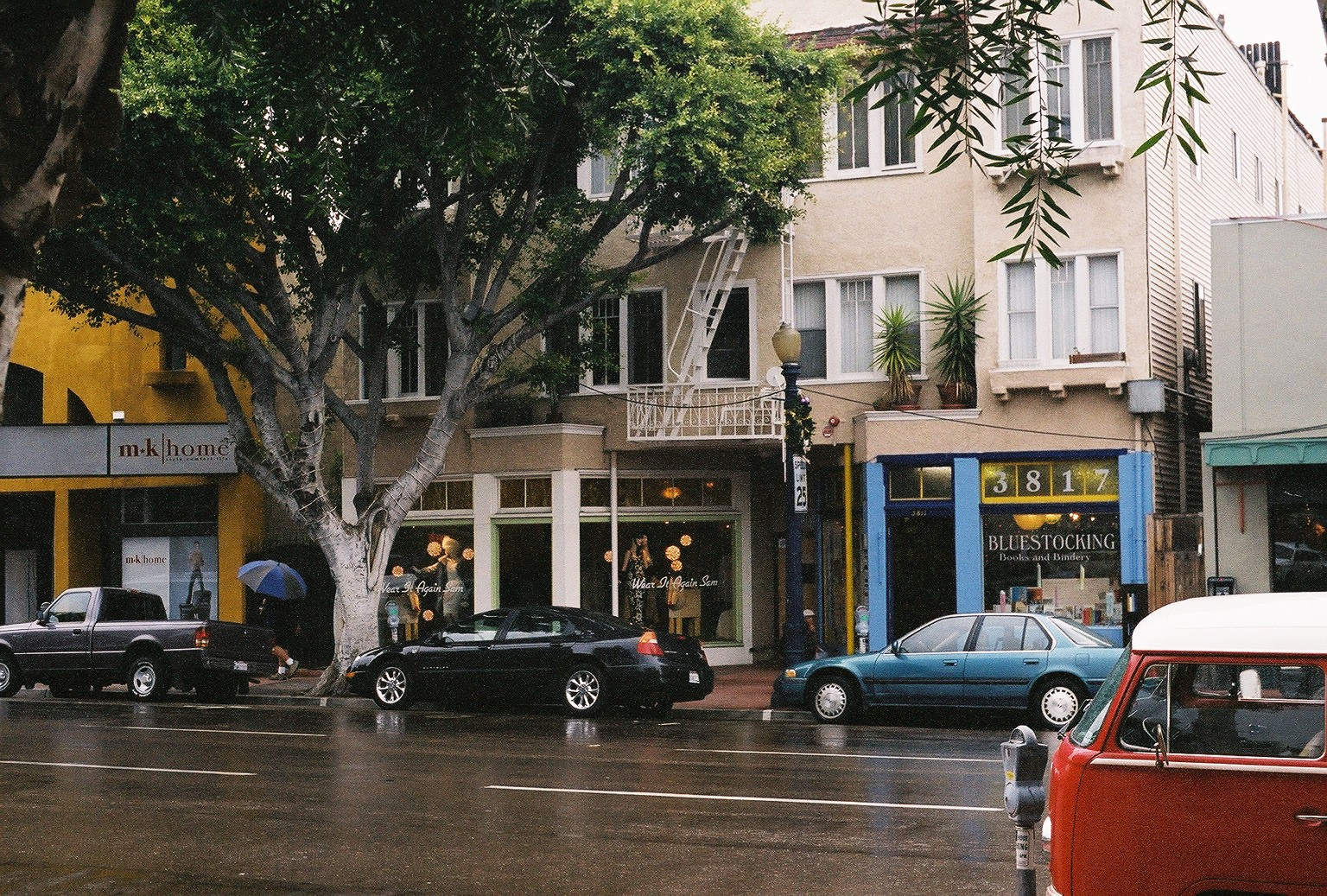 Hillcrest San Diego, California